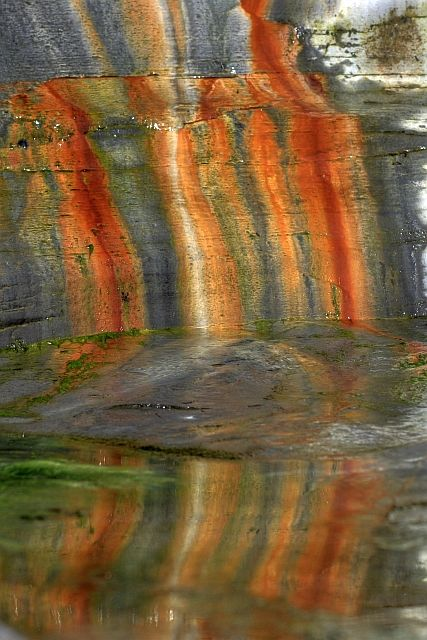 Mineral Stains, Rosedale Cliffs The water contains salts of iron and are also known chalybeate or ferruginous waters. Up to the mid nineteenth century it would have been thought to have health-giving properties.